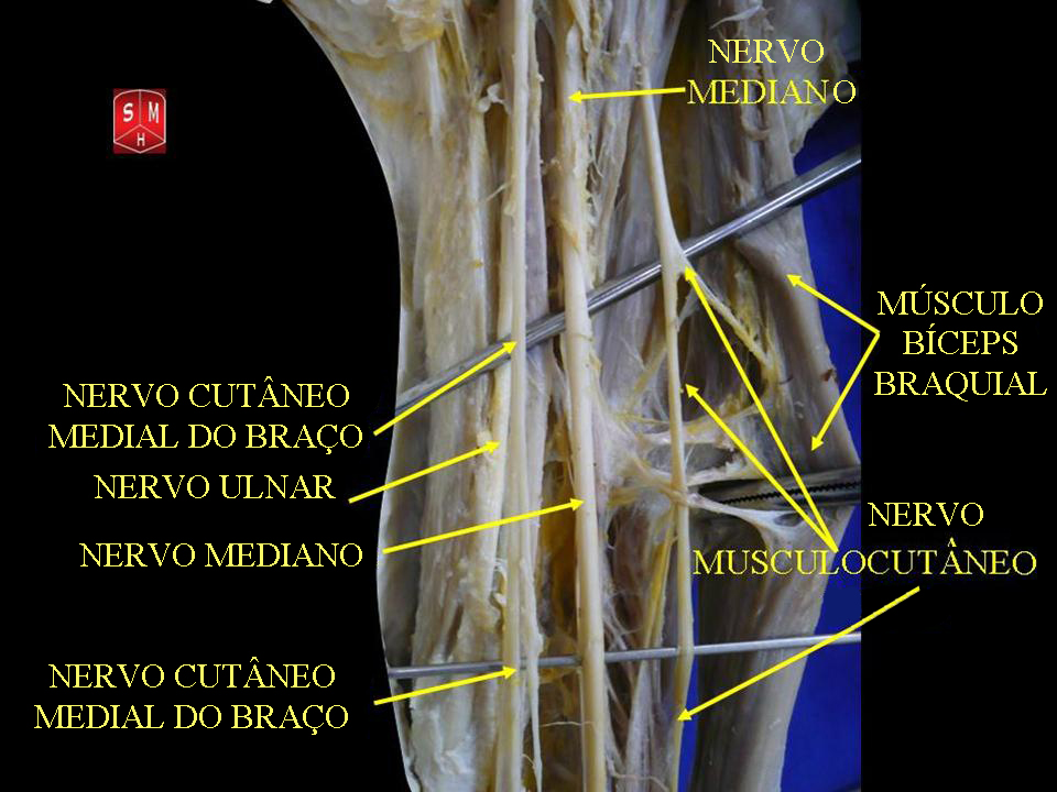 Dissection